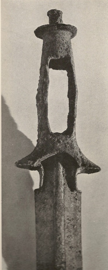 Sword from Monte Idda hoard, Decimoputzu, Sardinia